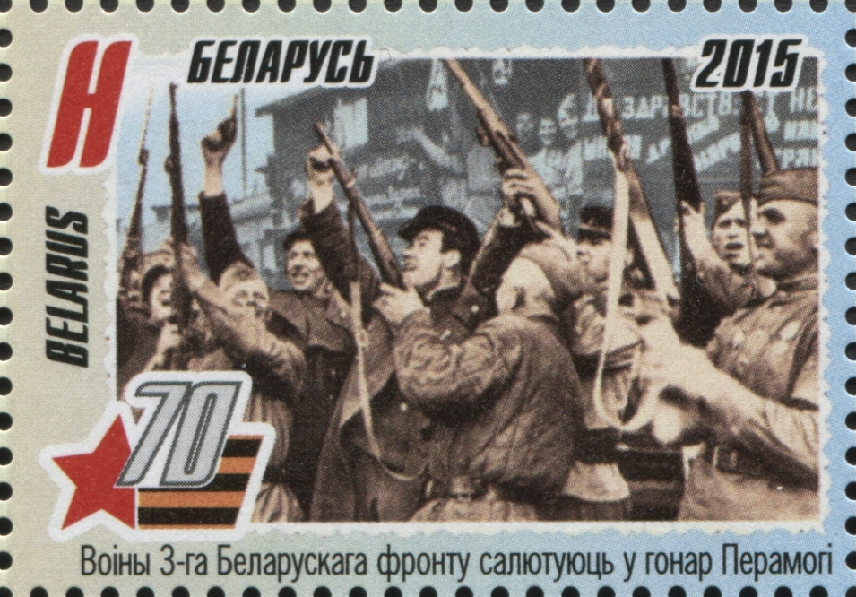 Stamps of Belarus, 2015